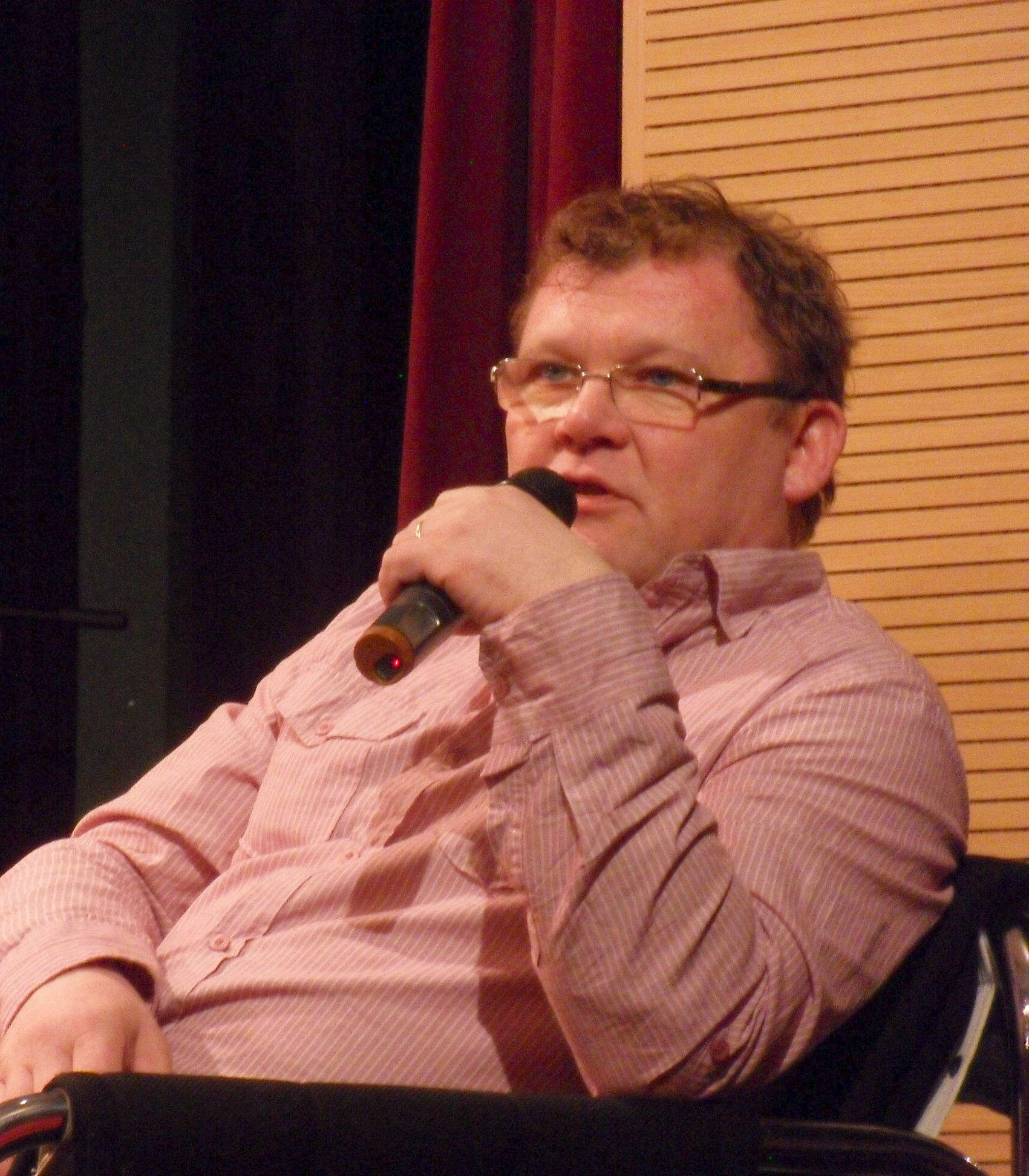 CzechTREK 2013, Kulturní centrum Novodvorská, Prague, Czech Republic Personality rights warningAlthough this work is freely licensed or in the public domain, the person(s) shown may have rights that legally restrict certain re-uses unless those depicted consent to such uses. In these cases, a model release or other evidence of consent could protect you from infringement claims.